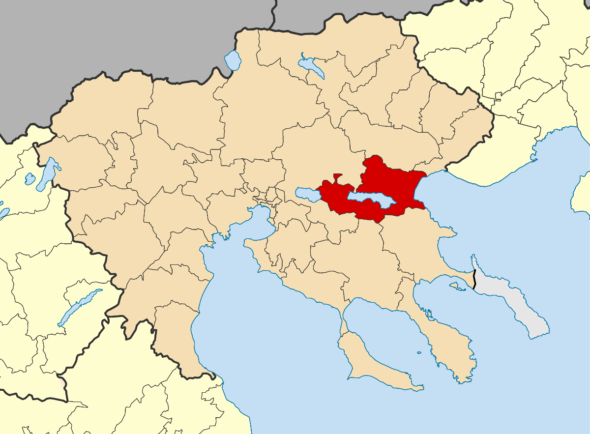 Locator map for Volvi municipality in Greek region Central Macedonia (2011)